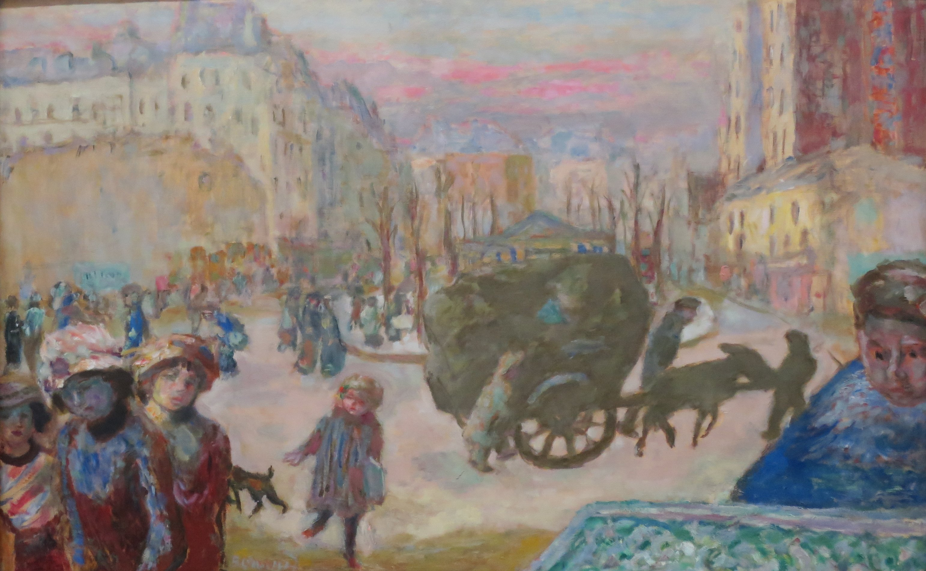 Morning in Paris by Pierre Bonnard, 1911, Hermitage